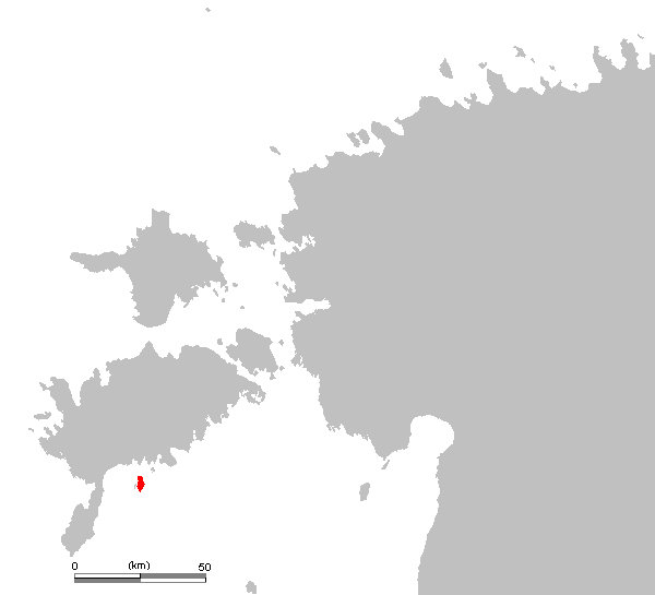 Abruka island on the map of Estonia.